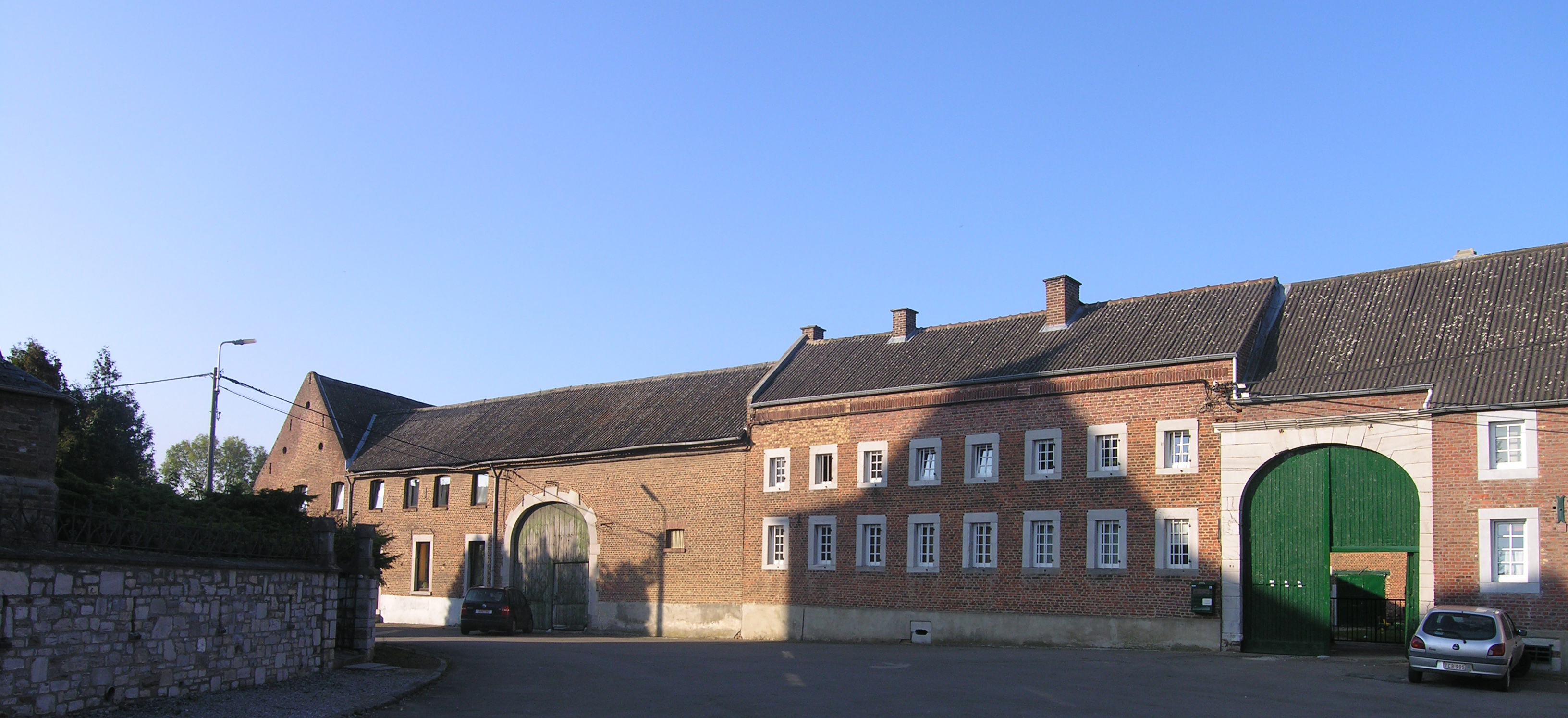 Limont (Belgium)